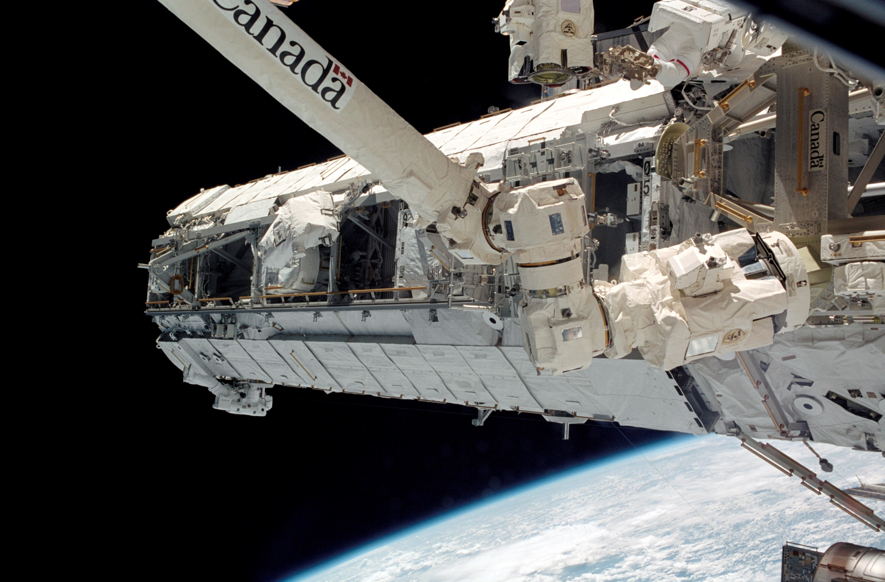 ISS S1 Truss structure (NASA) A view of the Starboard One (S1) Truss newly installed on the International Space Station (ISS) as photographed during the mission’s first scheduled session of extravehicular activity (EVA). The station’s Canadarm2 is in the foreground. Astronauts Piers J. Sellers (lower left) and David A. Wolf (upper right), both STS-112 mission specialists, are visible (10 October 2002).